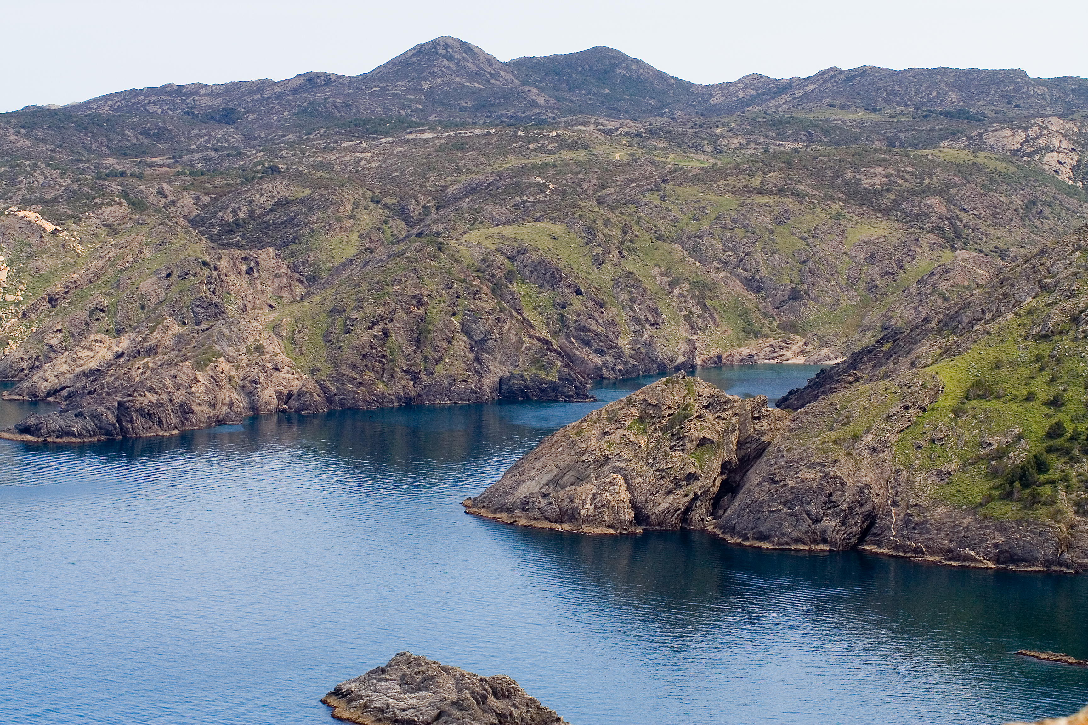 View of El Golfet from Cap Gros, Cap de Creus, in April 2006